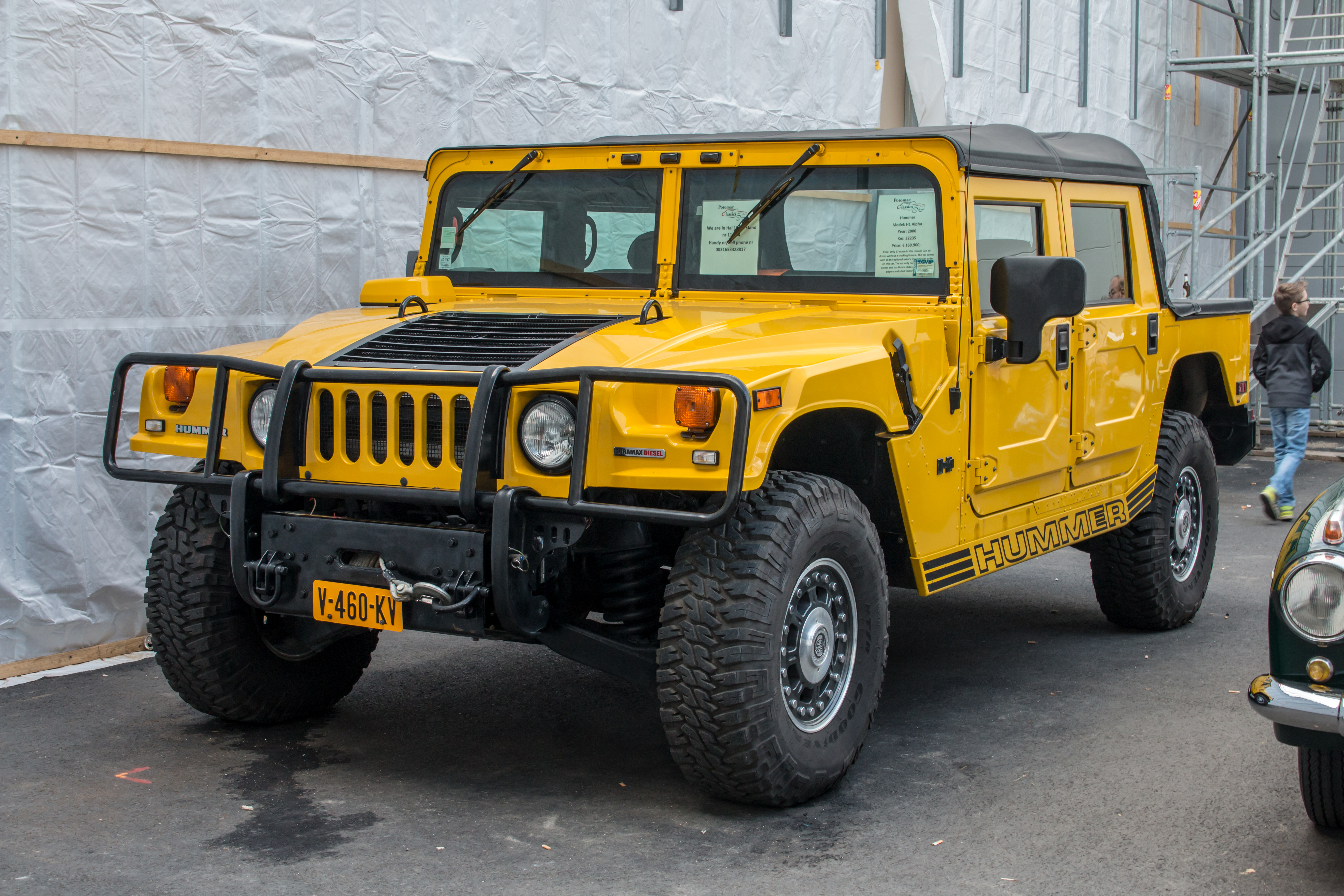 Techno-Classica 2018, Essen